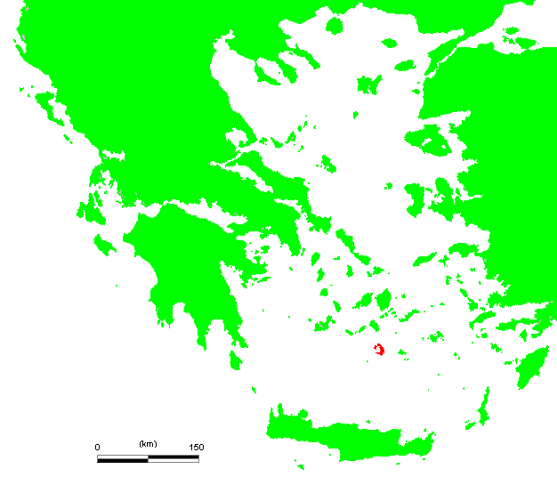 GR Thira.PNG (Greek island)